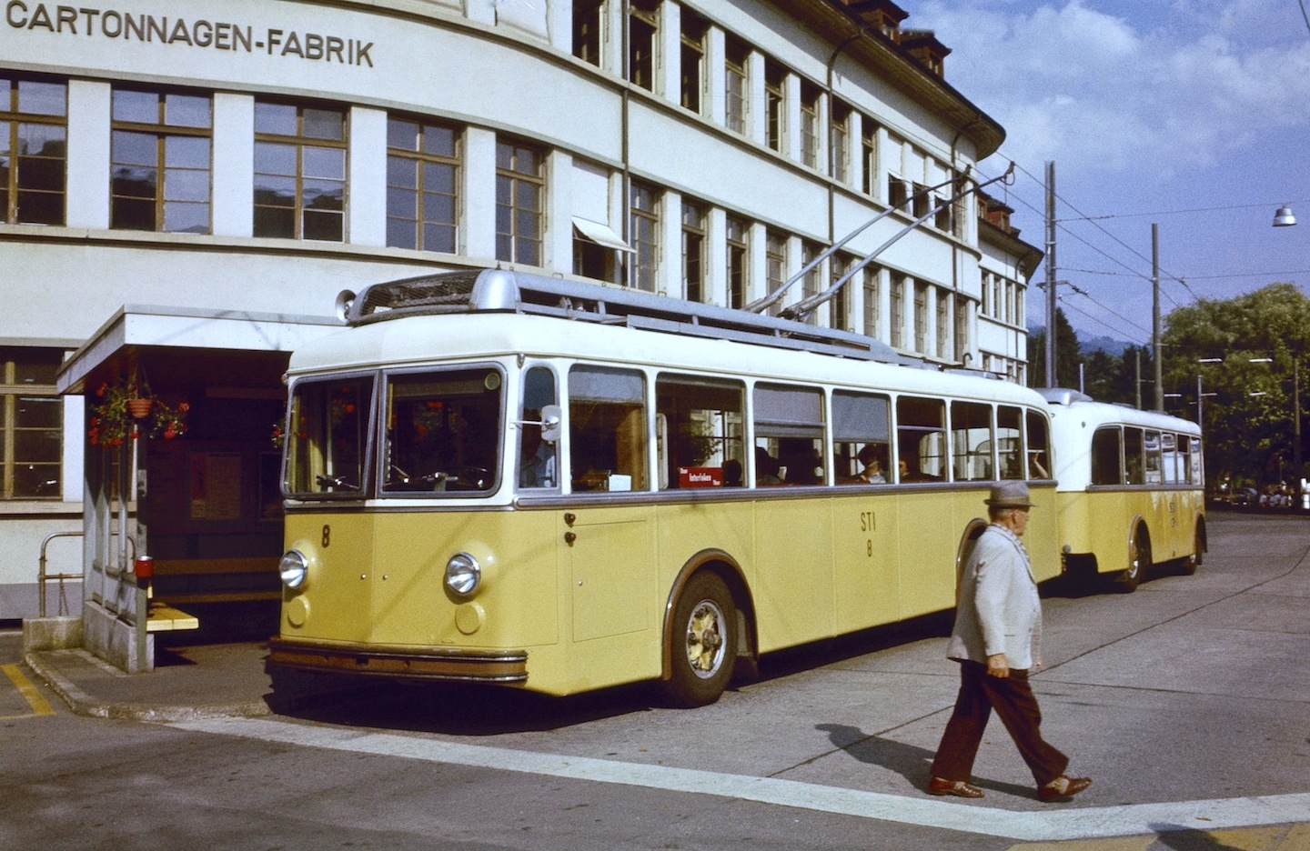 In Thun, Switzerland, trolleybus 8 and trailer 23 of the Thun–Beatenbucht trolleybus system (part of the Verkehrsbetriebe STI), are laying over at the STI terminus across from Thun Bahnhof (Thun railway station), in 1979, waiting to depart for Beatenbucht. No. 8 was a 1951 Berna with a Ramseier & Jenzer body and was 11 metres (36 ft) long. Trailer 23 had a Moser chassis and R&J body, and was 9 metres long. The trolleybus line opened for service in August 1952 and closed in March 1982. In this photo, the red sign in No. 8's side window was indicating a trip to "Interlaken", but that simply meant that this trip had a scheduled transfer connection at Beatenbucht with an STI motorbus to Interlaken; trolleybuses never ran beyond Beatenbucht, and the overhead wiring ended there.